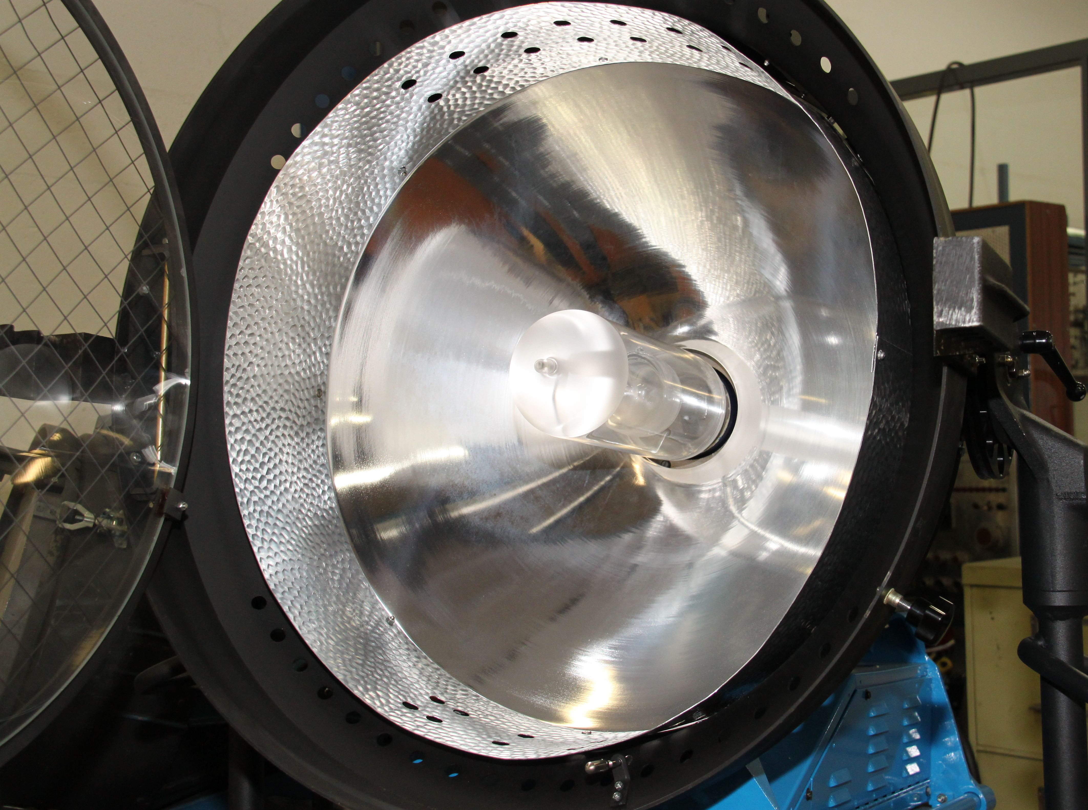 HMI 12/18 kW stage lighting instrument in action, with 18 kW lamp, single-ended.